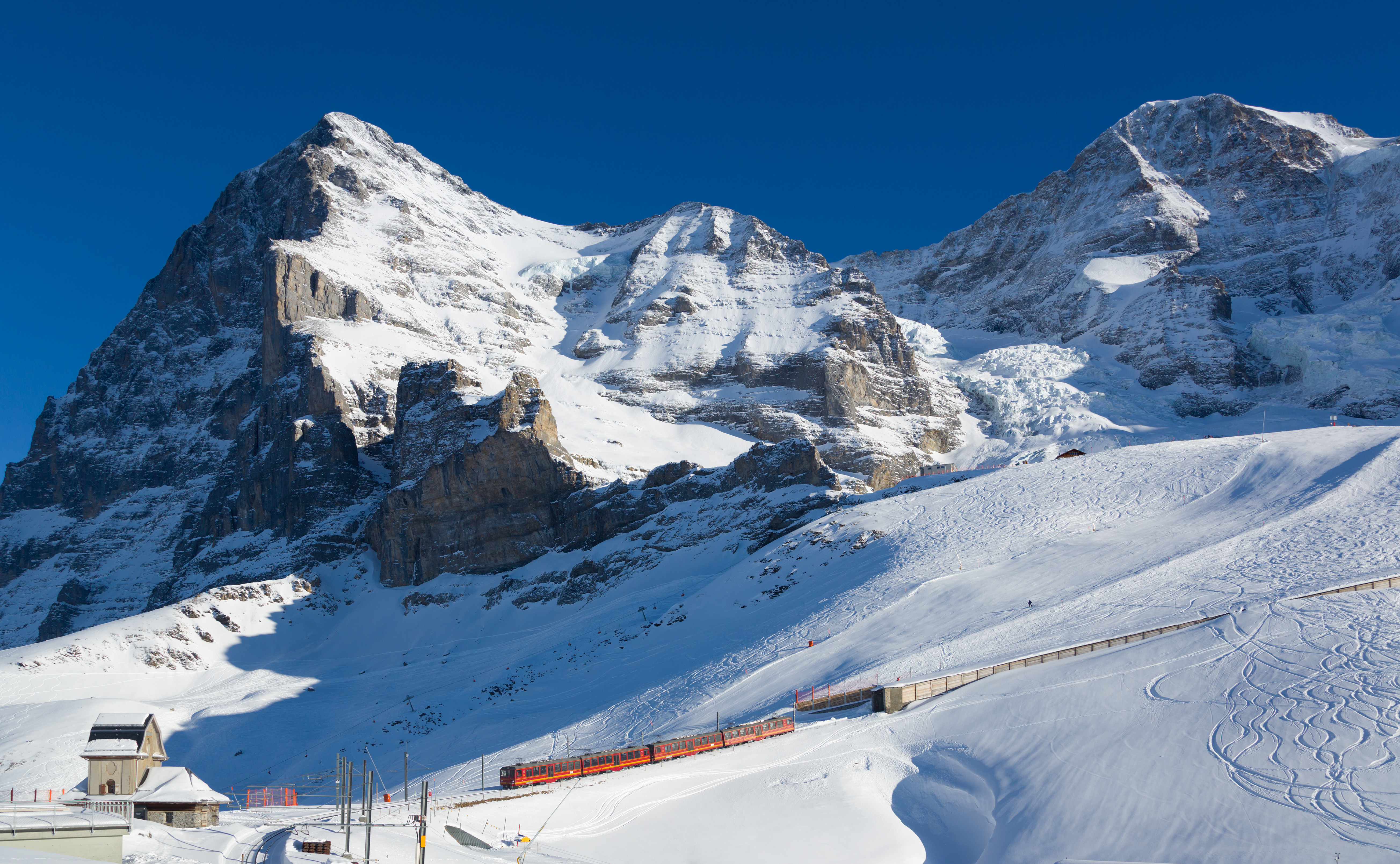 Jungfraubahn BDhe 4/8 between Kleine Scheidegg and Eigergletscher, Switzerland